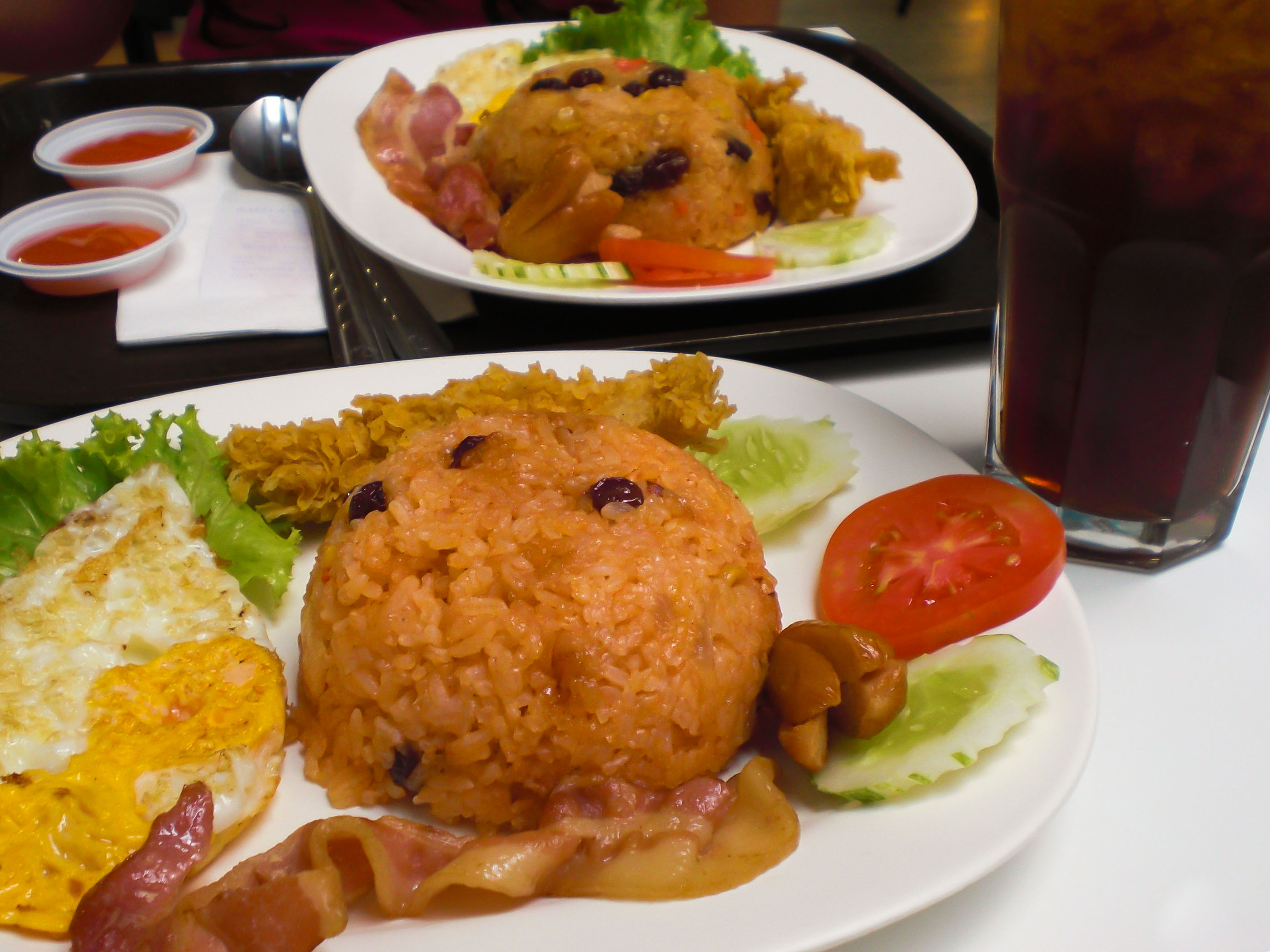 American fried rice (rice fried with tomato ketchup and raisins) - as served at MBK center, Bangkok, Thailand